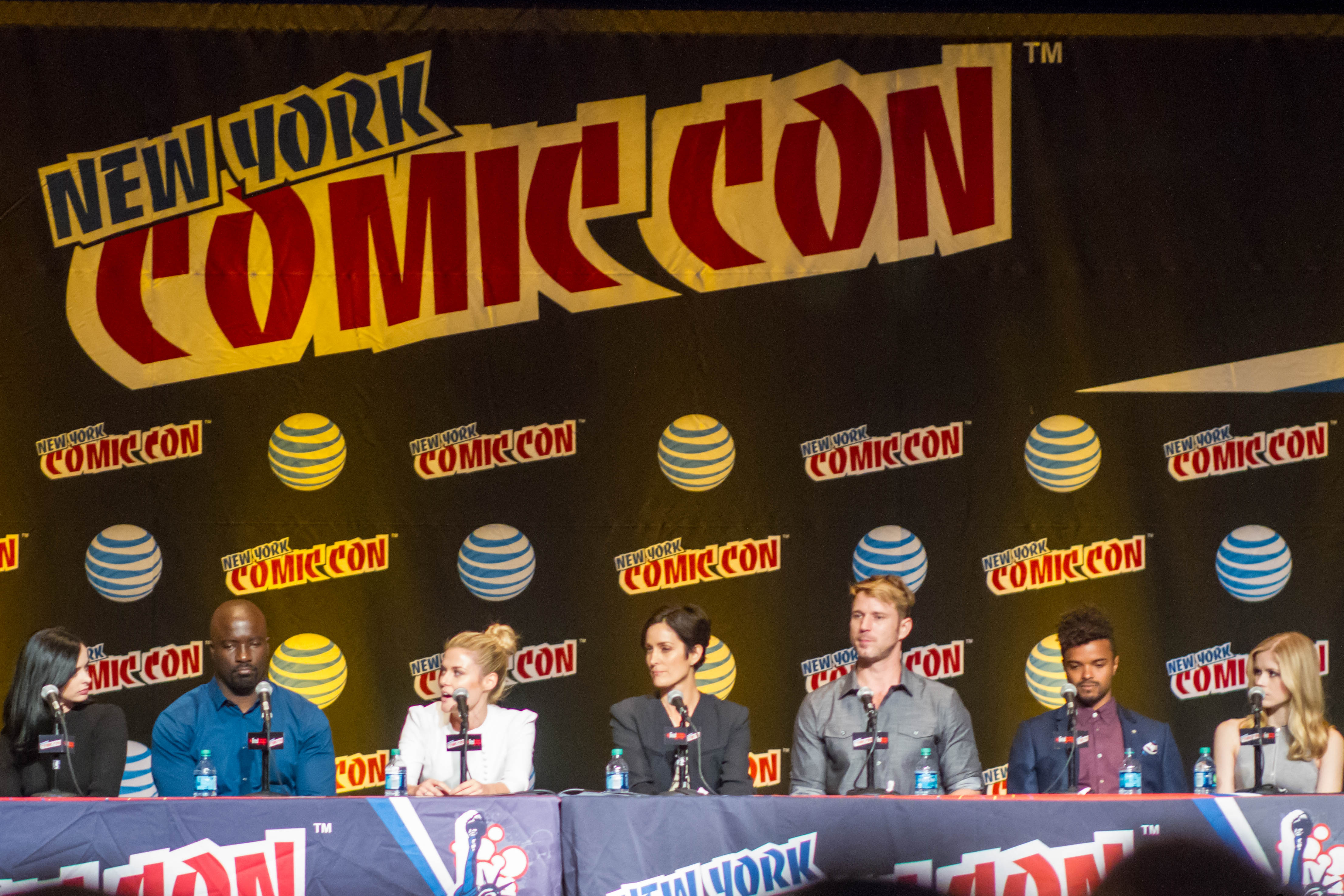 Panel for Jessica Jones at the 2015 New York Comic Con. (L:R: Krysten Ritter, Mike Colter, Rachael Taylor, Carrie-Ann Moss, Wil Traval, Eka Darville, Erin Moriarty)